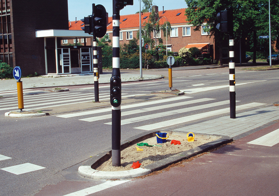 Illegal and anonymous intervention in public space.